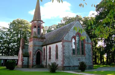 A photo of Brannockstown Baptist Church in Brannockstown, Kilcullen, County Kildare, Ireland. Built in 1882, more information here at